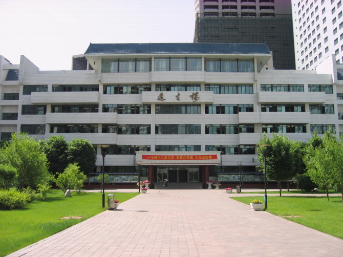 Urumqi No.1 High School Yifu building